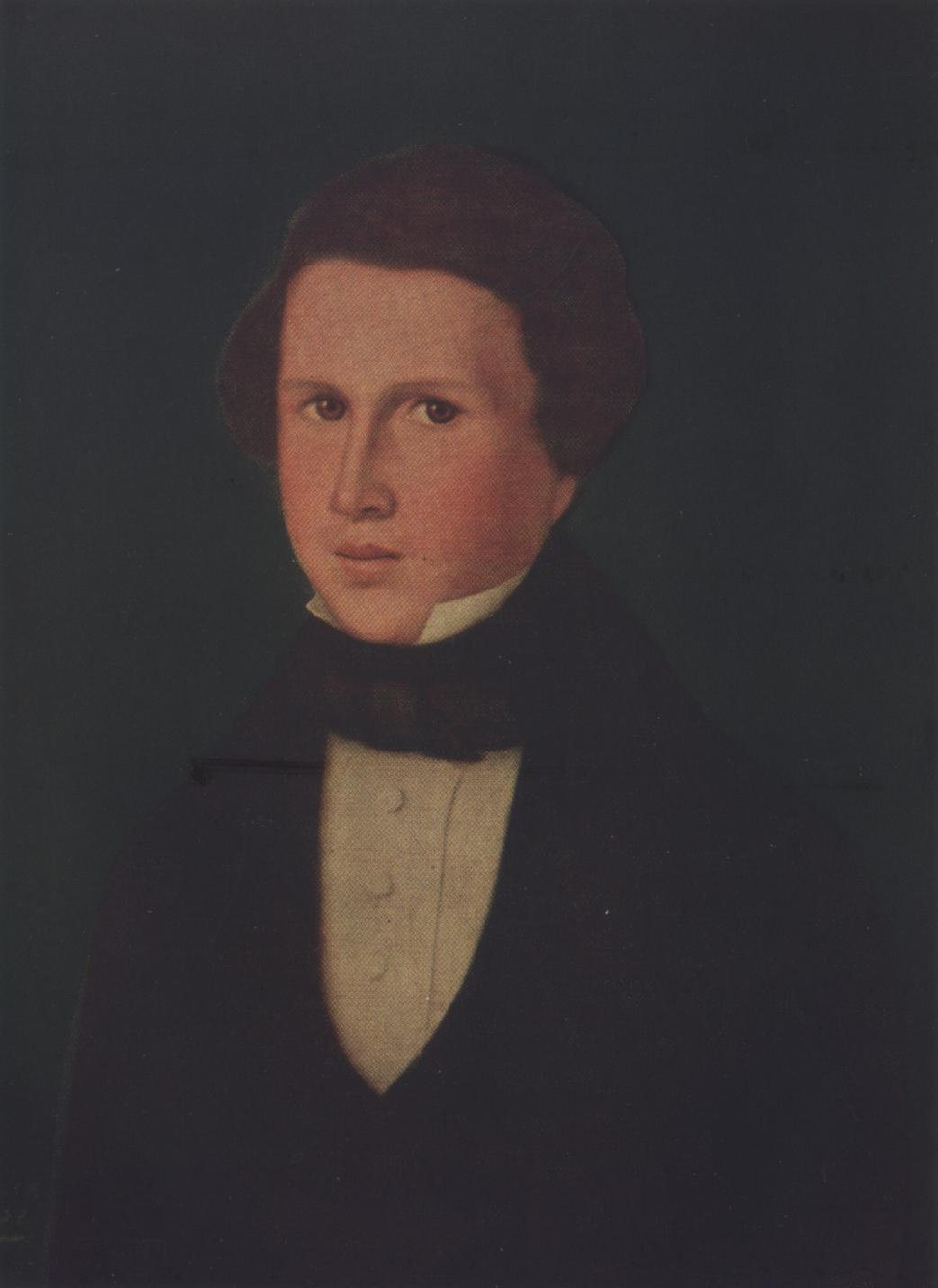 "Guillermo Rawson" (1839), oil over canvas made by Benjamín Franklin, his brother.